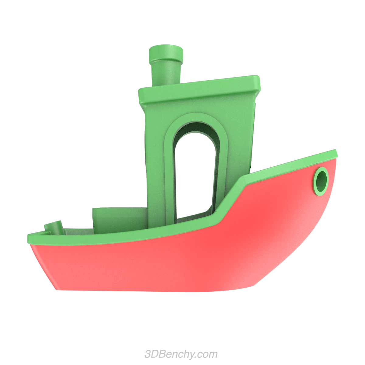 A two colour 3DBenchy, Side view